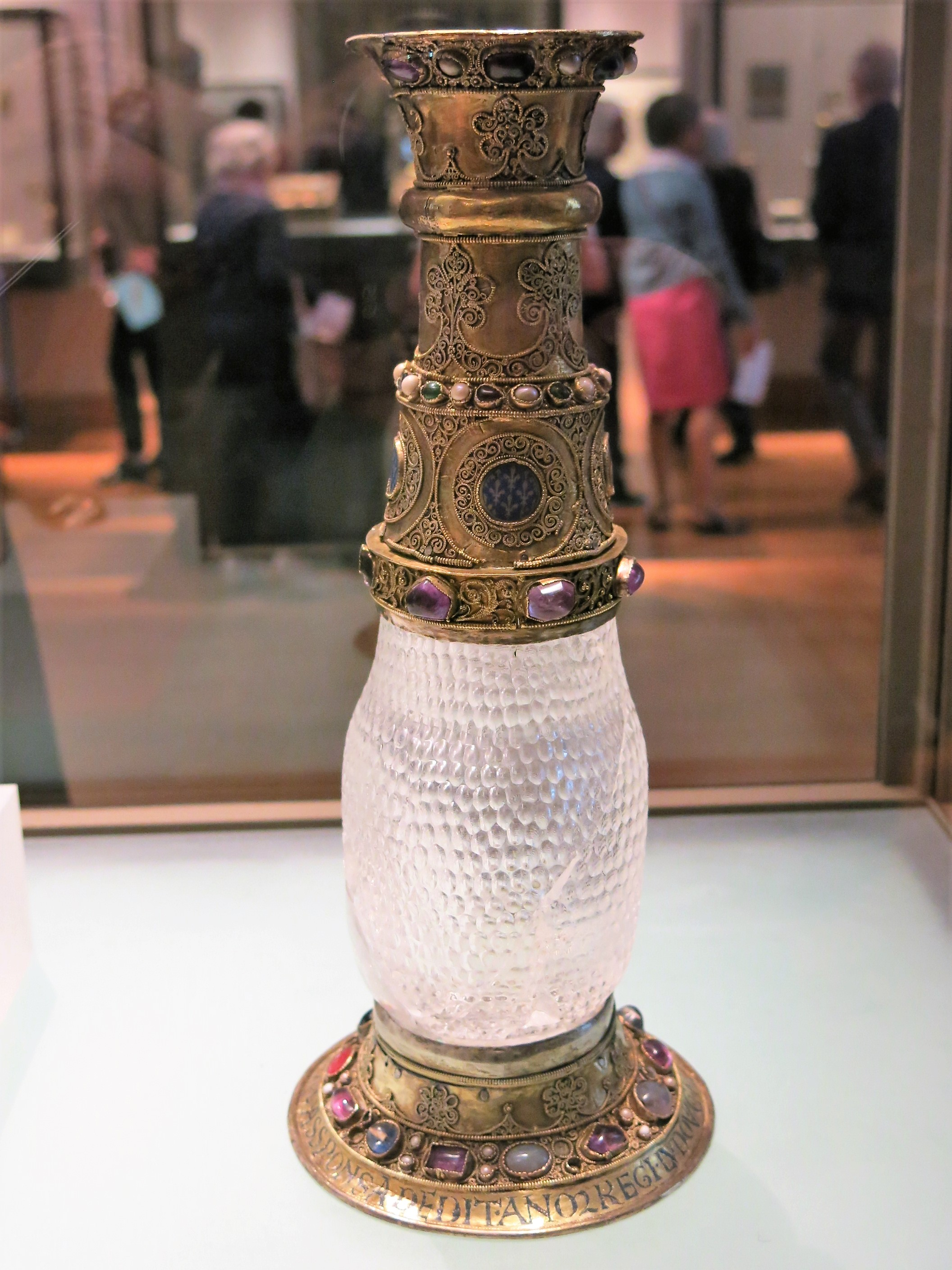 Rock crystal Alienor's vase. Louvre museum (Paris, France).